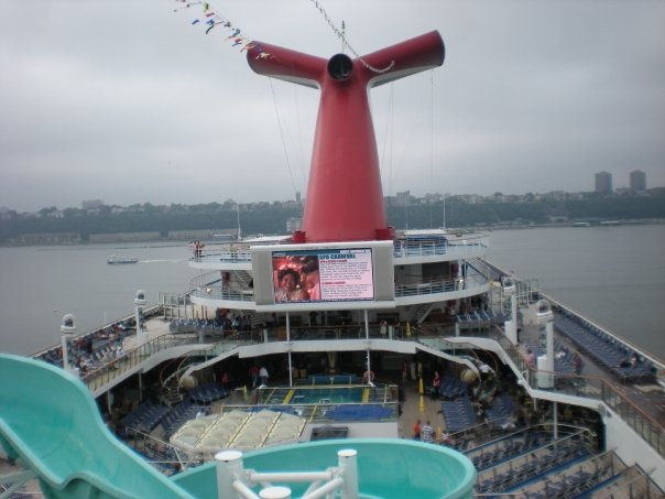 Carnival Triumph's Panorama Deck